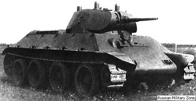 Russian light tank - A-20